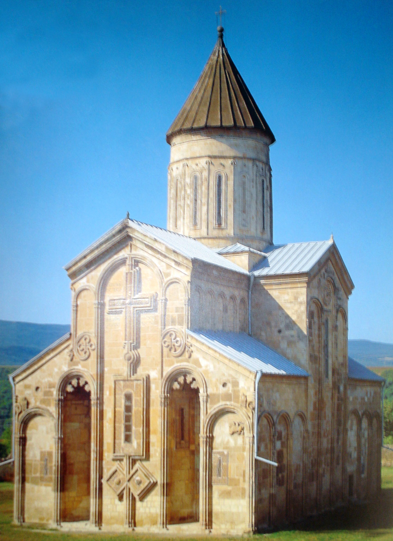 Samtavisi Cathedral — a classical stone Georgian Orthodox church in Georgia.